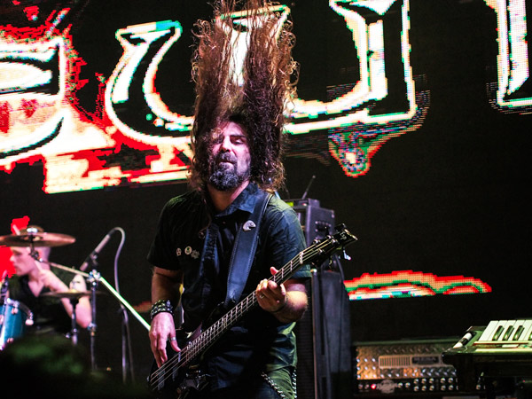 petros christos live